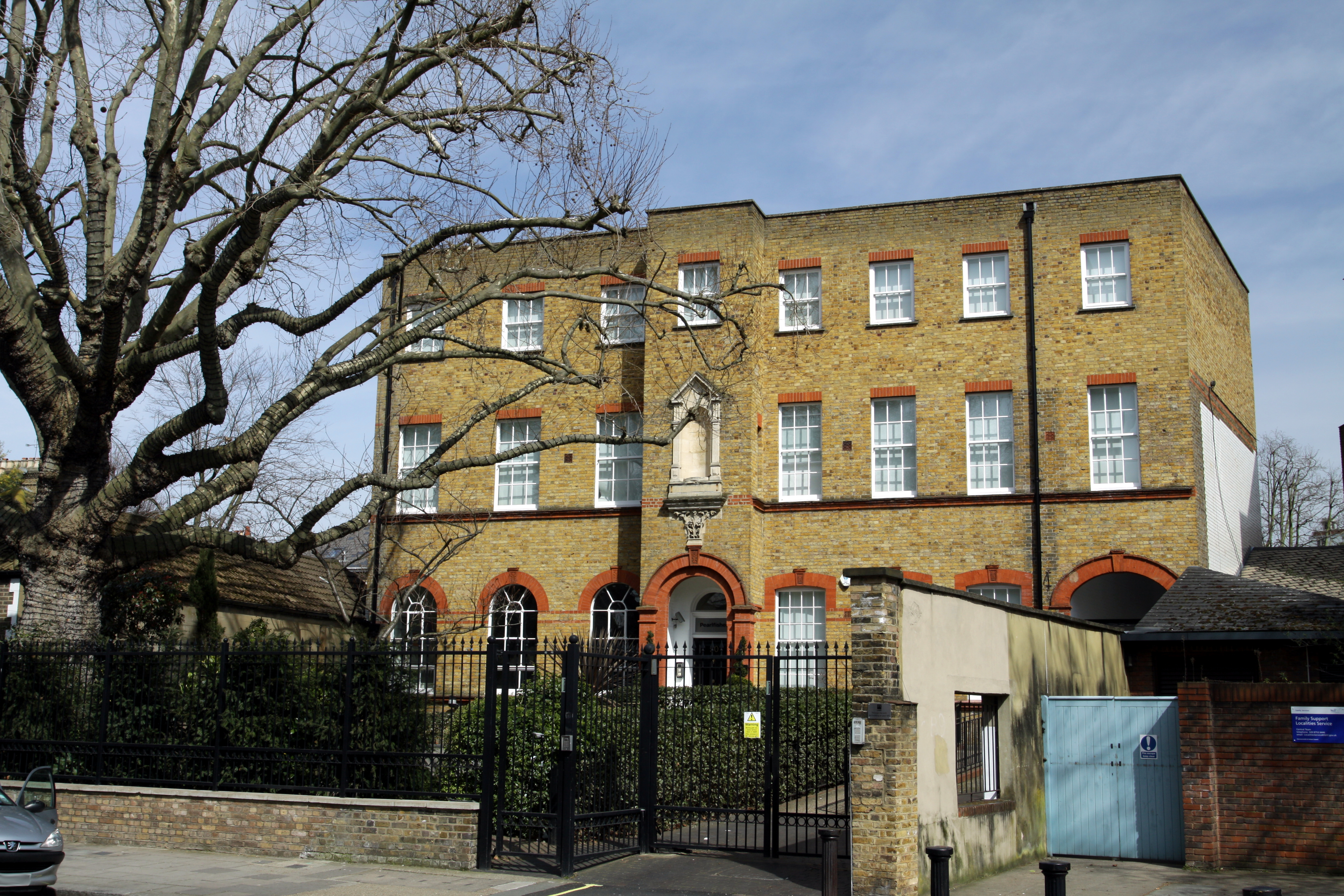 Virgin Media Press Office in Brook Green in the London Borough of Hammersmith and Fulham, London, England, Great Britain. The making of this file was supported by Wikimedia UK.